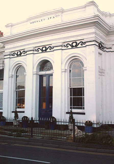 Hockley Spa A short-lived Victorian attempt to elevate Hockley to the fashionable heights of Bath or Royal Tunbridge Wells. Despite the elegant pump room it never caught on.